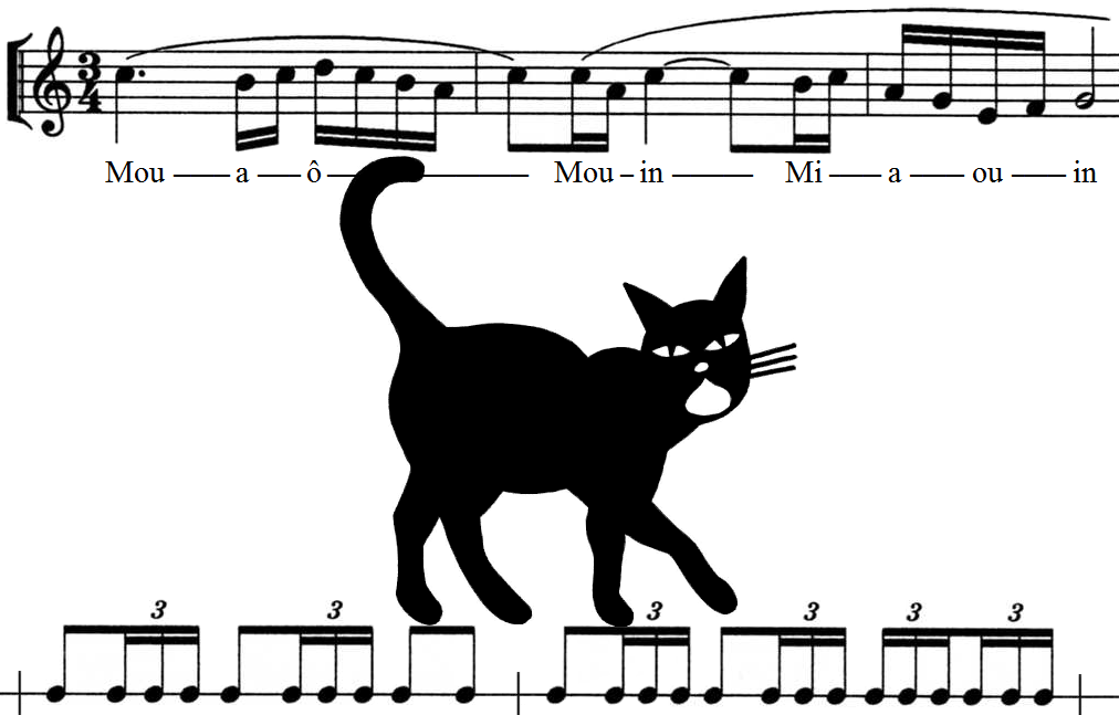 Caricature drawing of a cat walking on the pace of Bolero meowing theme Maurice Ravel